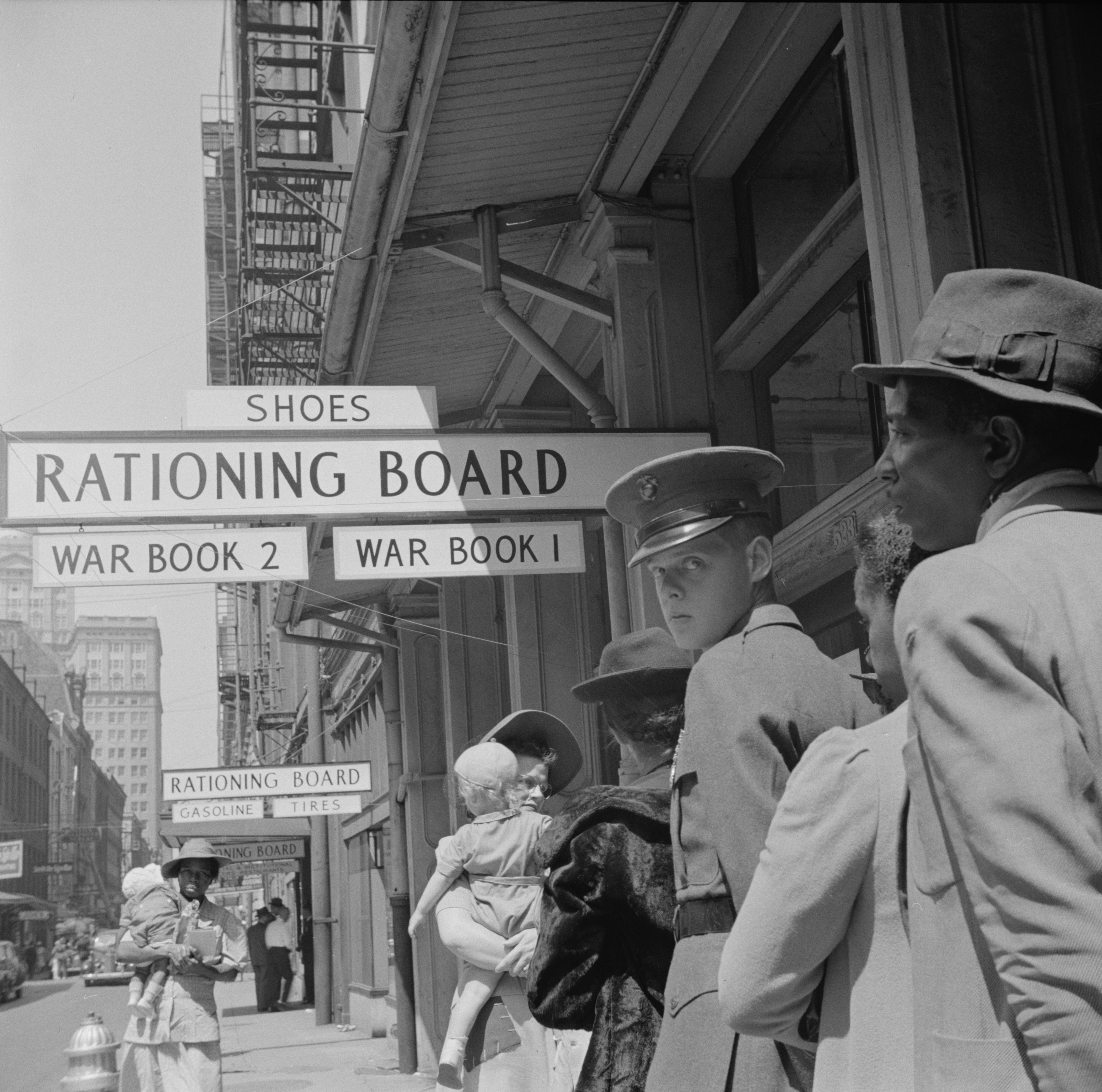 New Orleans, Louisiana, 1943. Line at Rationing Board during World War II. Location is the 500 block of Gravier Street. Note part of the Hibernia Bank Building visible in distance at left.